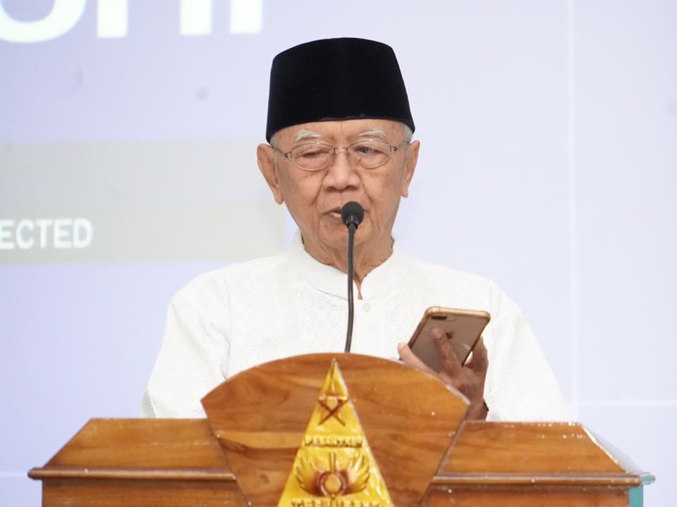 Jombang, 9 March 2019 Improving public health status is not only done by the government, health workers, or other ministries / institutions, pesantren also have a role in this. Healthy boarding school is one of the efforts in campaigning to boarding schools to live healthy. The Indonesian Minister of Health Nila Moeloek said that healthy pesantren are pesantren that carry out community empowerment efforts through continuous improvement of the pesantren community's ability regarding health. It is hoped that the pesantren community will be able to be independent and play an active role in preventing disease, maintaining a healthy environment, creating health-oriented policies to improve optimal health status. "The purpose of healthy boarding schools is to realize that pesantren communities can be independent and play an active role in improving their health status," said the Minister of Health, at the National Seminar on the Role of Pesantren in Health Development, Saturday (9/3).